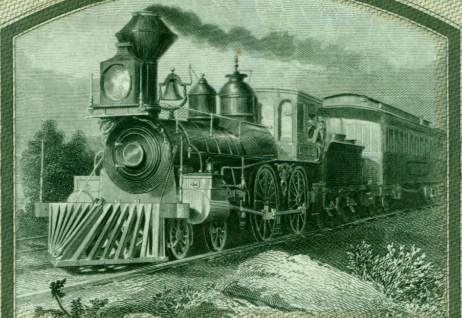 Share of the Chicago, Saint Paul, Minneapolis and Omaha Railway Company, issued 13. December 1919